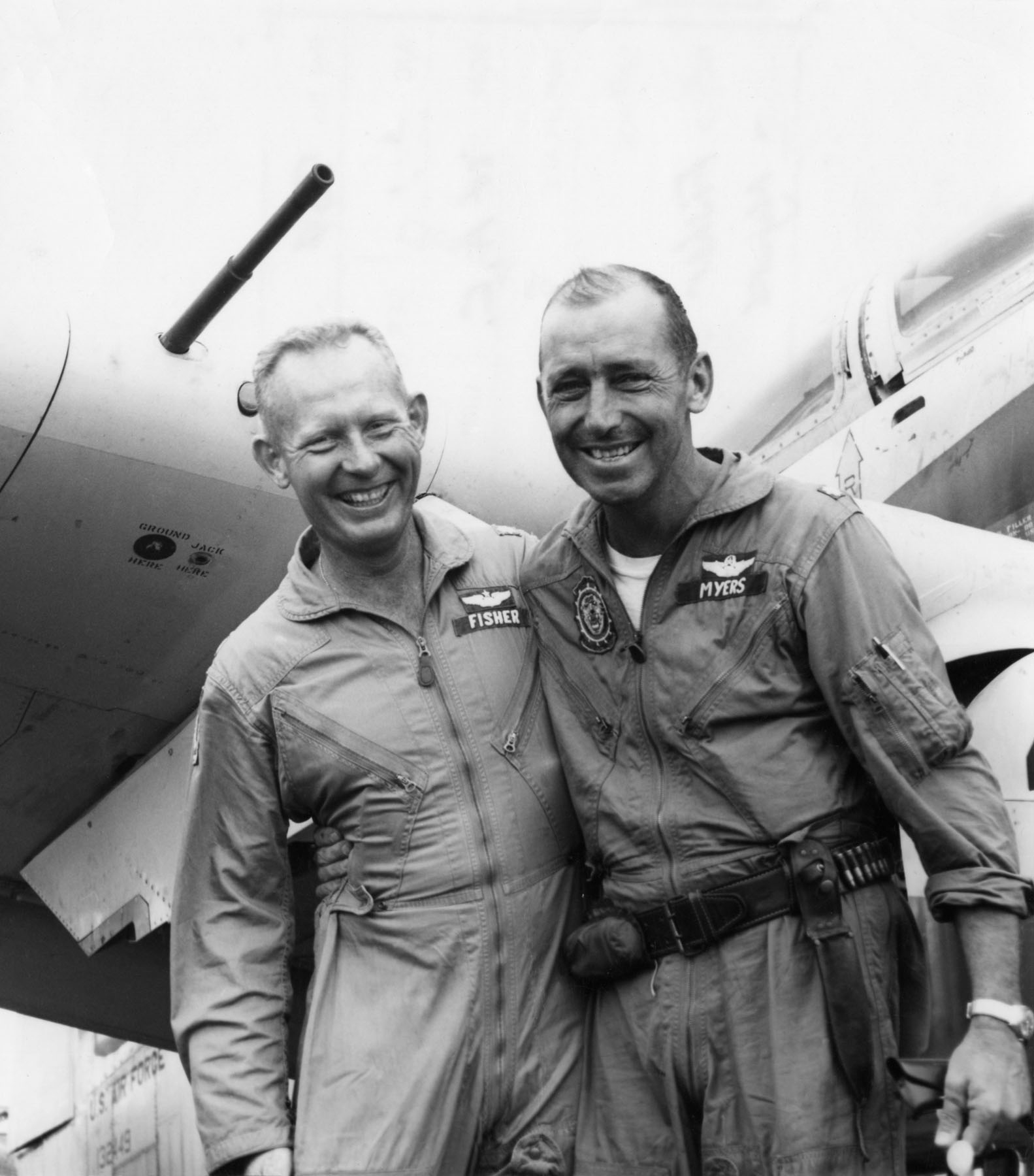 U.S. Air Force Majors Bernard F. Fisher and D.W. "Jump" Myers, in Vietnam, 10 March 1966. The photo was taken after Fisher's rescue of Myers from the A Shau Valley Special Forces camp airfield in front of Fisher's Douglas A-1E Skyraider (U.S. Navy BuNo 132649). Myers' aircraft had been hit over the camp and caught fire. Too low to bailout, Myers crash-landed his aircraft on the small airstrip at the Special Forces camp and ran to cover alongside the runway. Knowing that his wingman would be captured or killed before a rescue helicopter could arrive, Fisher landed his A-1E on the heavily damaged runway. As other Skyraiders provided cover, Myers jumped into Fisher's aircraft and they escaped amid heavy small arms fire. For these heroic actions, President Lyndon B. Johnson awarded Fisher the Medal of Honor on 19 January 1967.